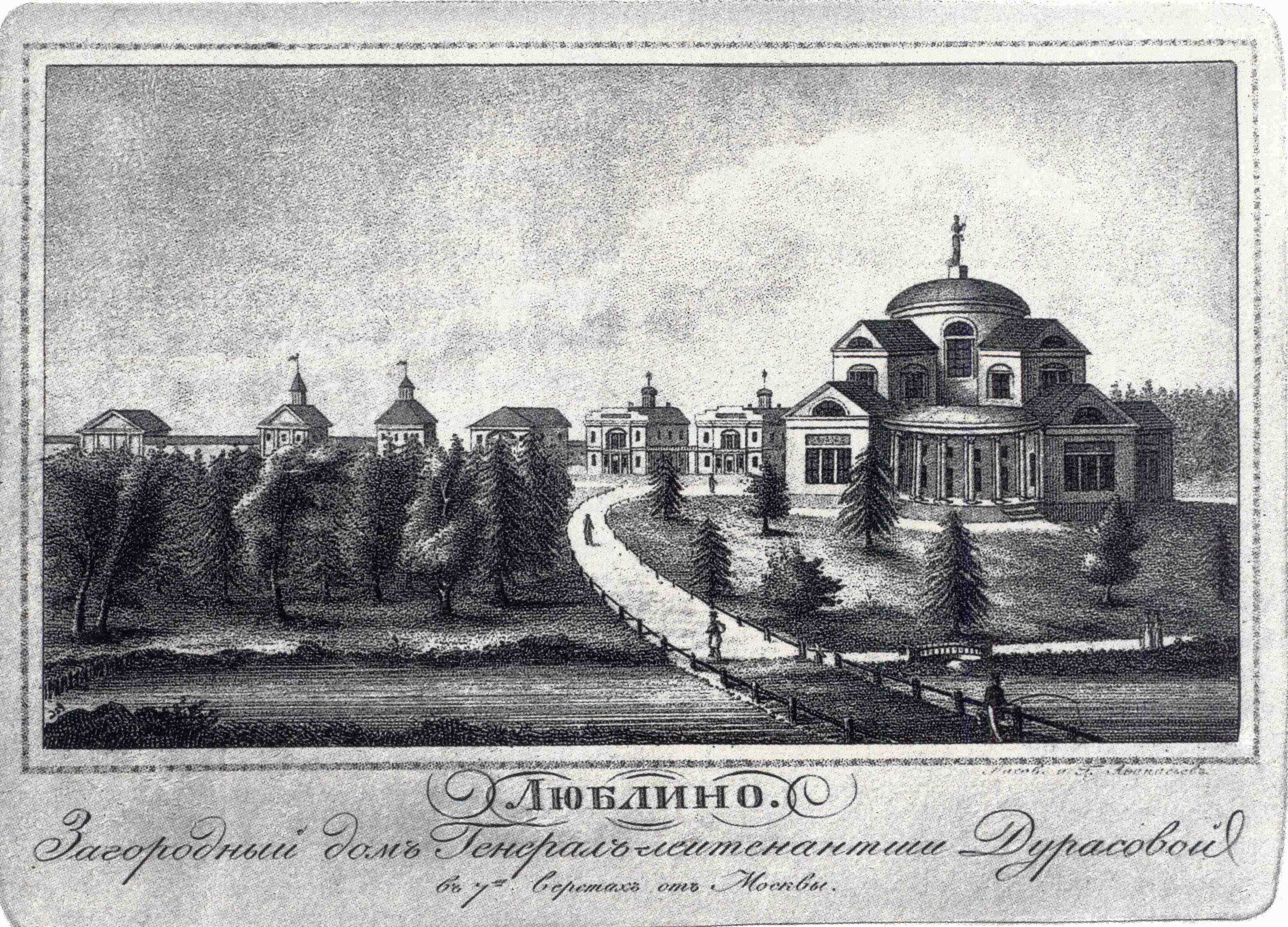 Lyublino; House of Durasova near Moscow, Russia. Drawing and engraving by Afanasyev. An old postcard ca. 1900.